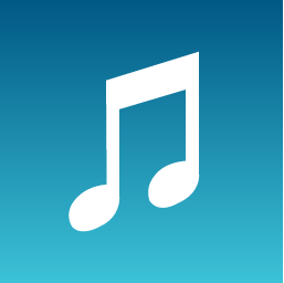 icon for Meo Telecommunication's Meo Music